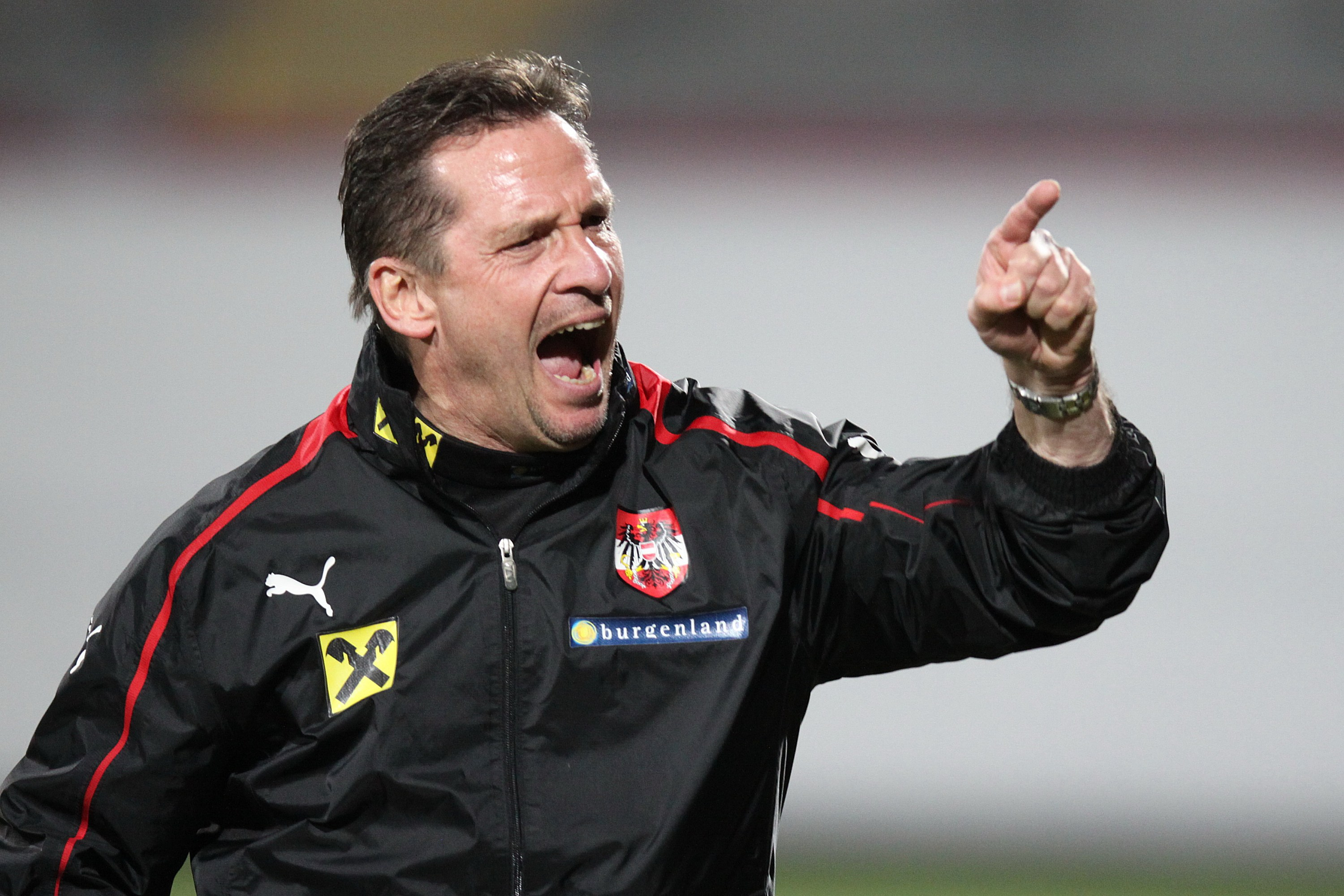 2017 UEFA European Under-21 Championship qualification – Austria U-21 (red shirts) vs. :en:Finland national under-21 football team |Finnland U-21 (blue shirts) 2-0 (0-0) – 2015-11-13 in Vienna, Austria Arena – The photo shows headcoach Werner Gregoritsch (Austria).